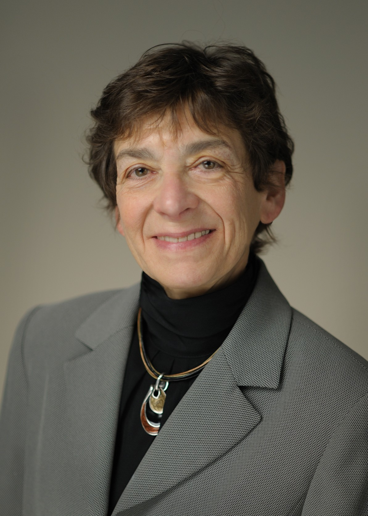 Martha J. Somerman, D.D.S., Ph.D., Director, National Institute of Dental and Craniofacial Research (NIDCR), National Institutes of Health (NIH).